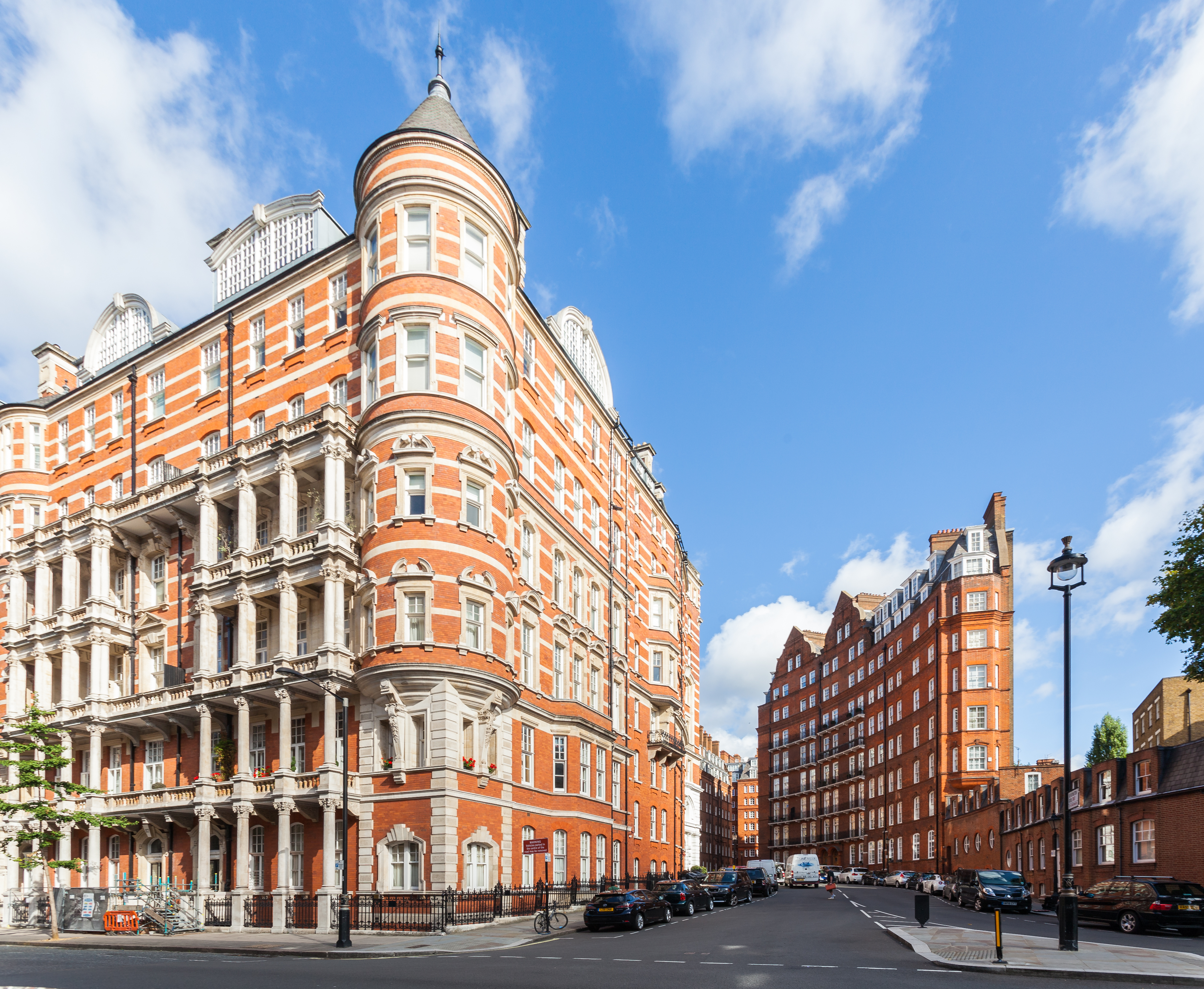 Brick buildings in Kensington Gore, London, England